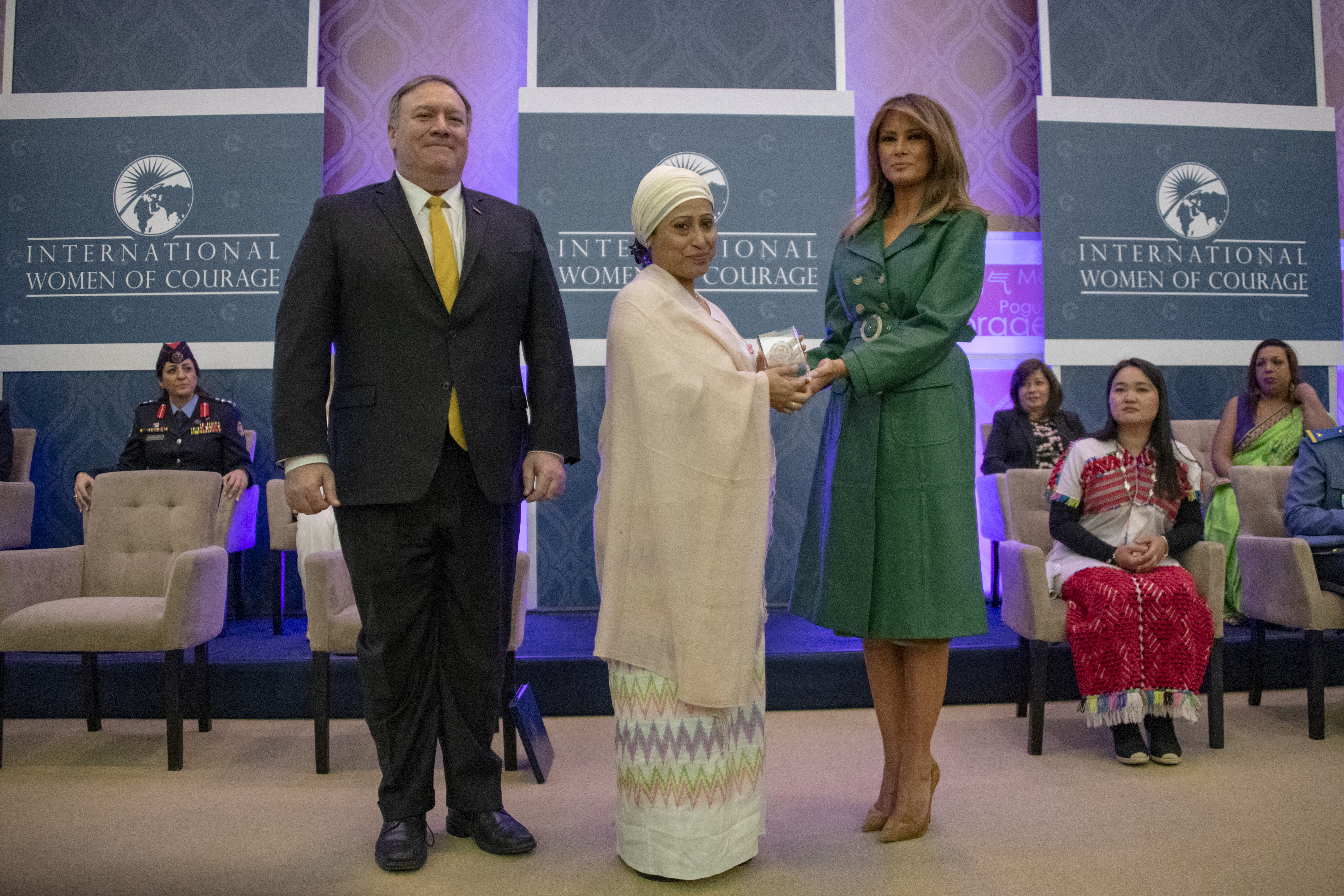 U.S. Secretary of State Michael R. Pompeo and First Lady of the United States Melania Trump present Razia Sultana from Bangladesh with the 2019 International Women of Courage (IWOC) Award during the ceremony at the U.S. Department of State in Washington, D.C., on March 7, 2019. [State Department photo by Ron Pryzsucha/ Public Domain]